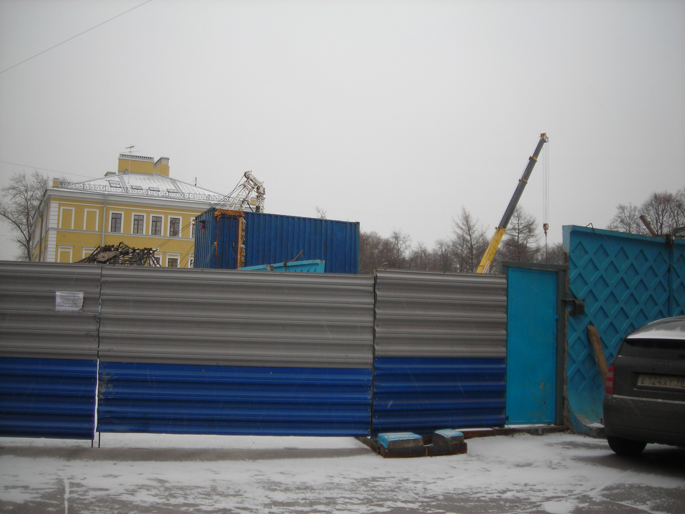 Construction of metrostation «Zvenigorodskaya», Spb (november of 2007)